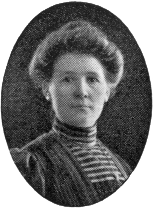 Amanda Christensen (1863-1928), Swedish seamstress and entrepreneur; founder of the company Amanda Christensen AB, a leading producer of neckties.